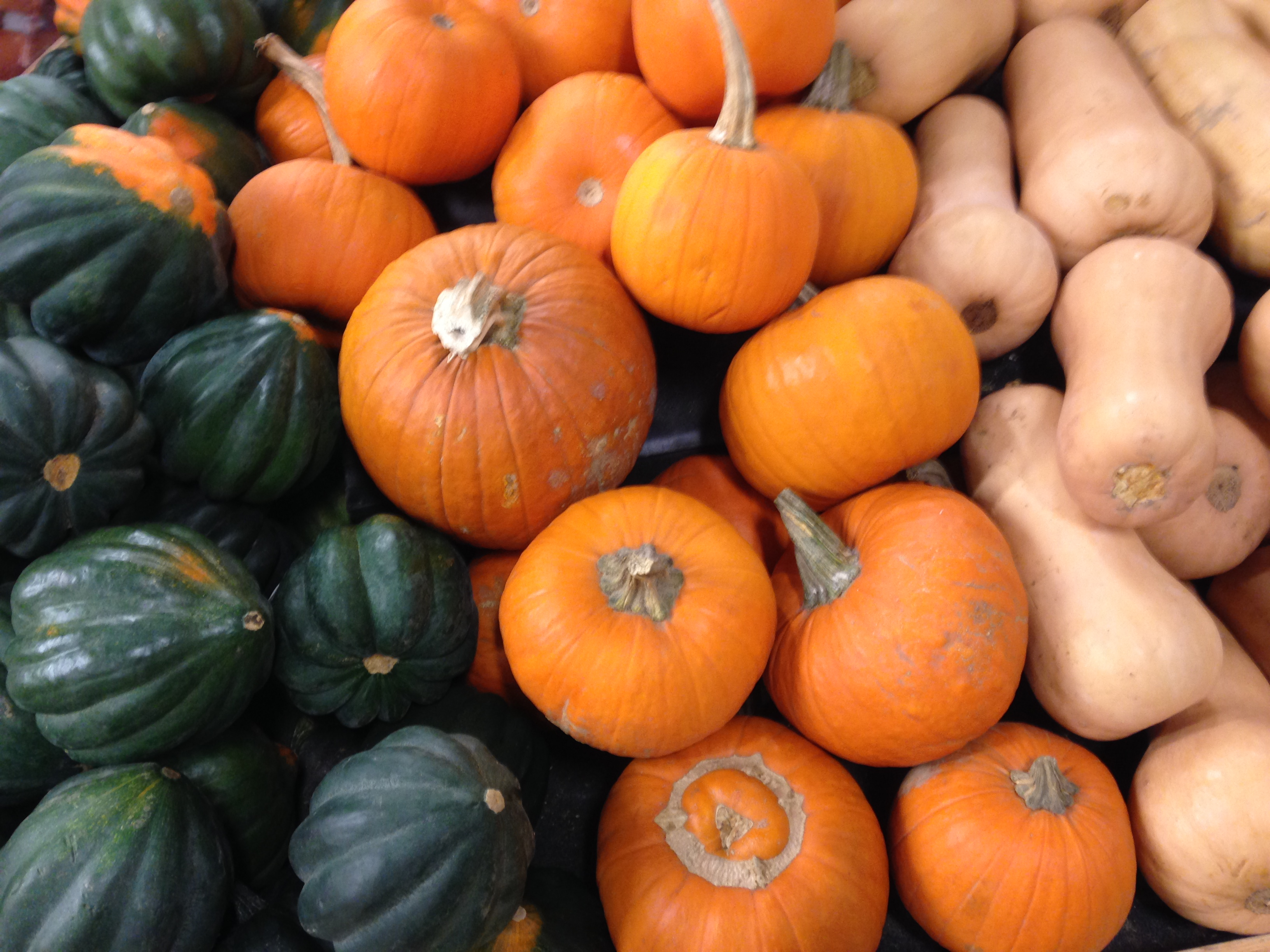 A squash display at a local supermarket in New Hampshire